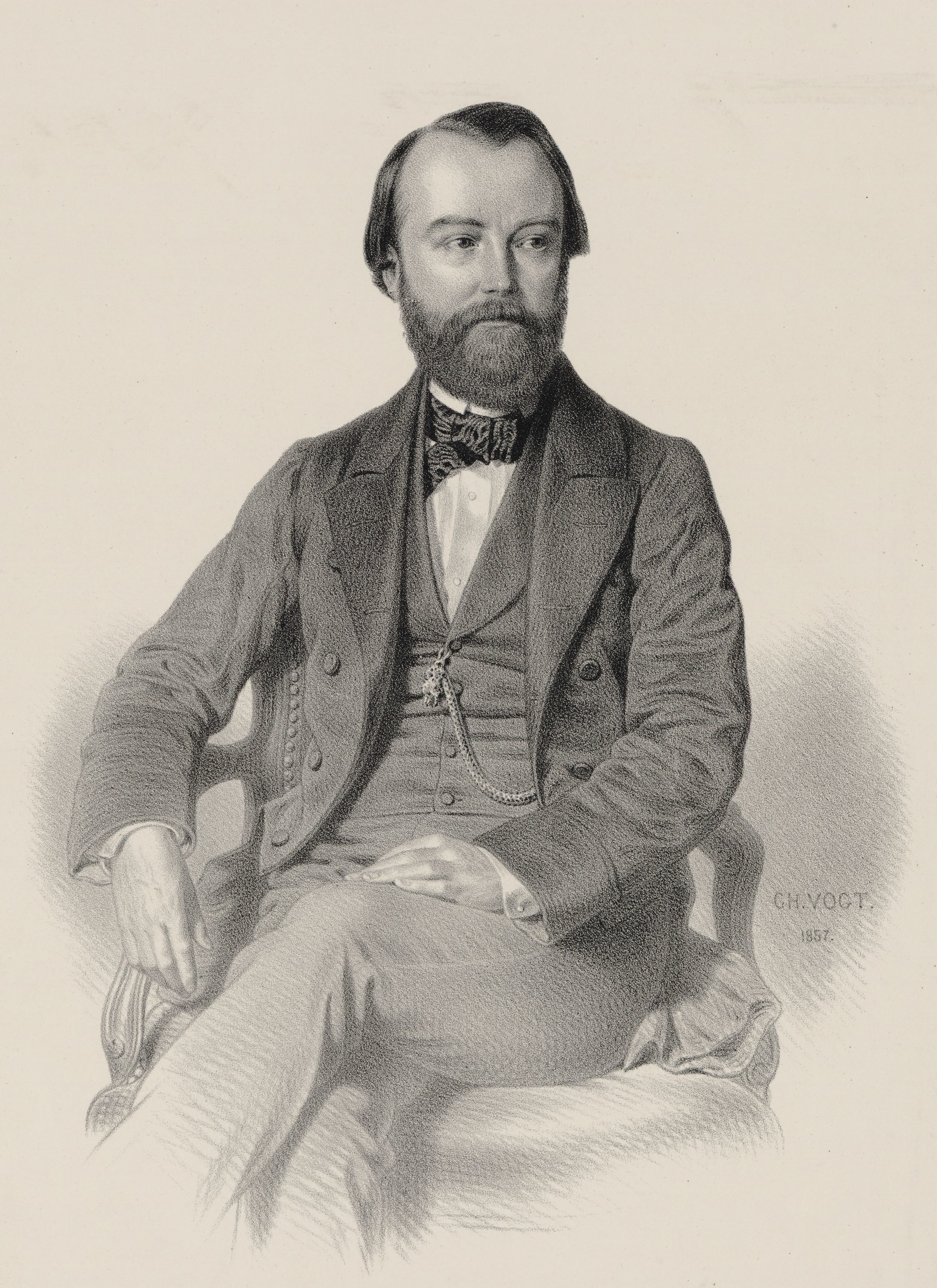 Edouard Deldevez (1817-1897), French composer, conductor, & violinist